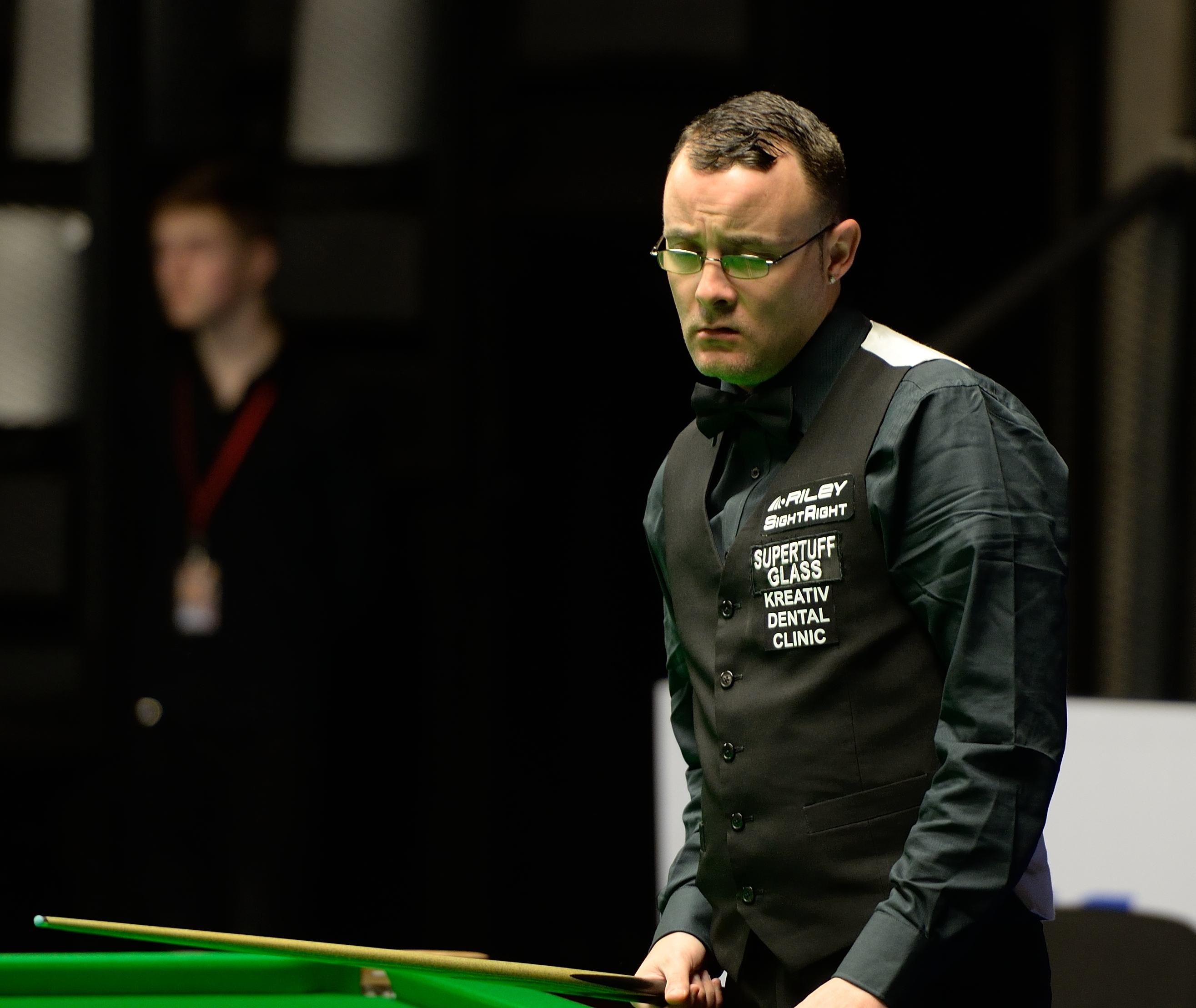 Picture taken in Berlin during the Snooker German Masters in 2015. Martin Gould.